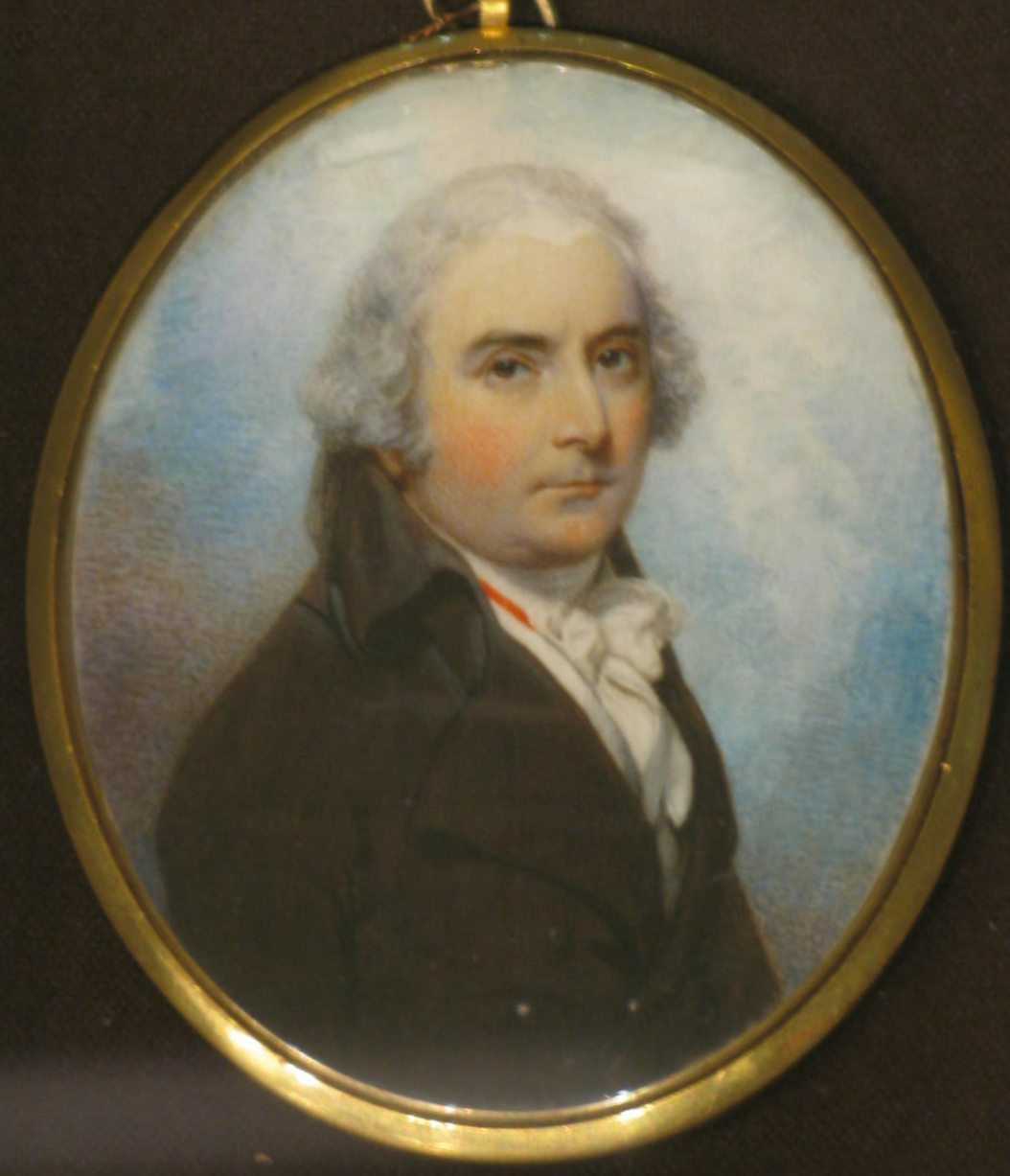 Ira Allen 20th century Unidentified Copy after William Wood watercolor on ivory sight 3 1/2 x 2 3/4 in. (8.8 x 7.0 cm) oval Smithsonian American Art Museum Gift of Mrs. Norvin H. Green 1941.5.3 Smithsonian American Art Museum 3rd Floor, Luce Foundation Center